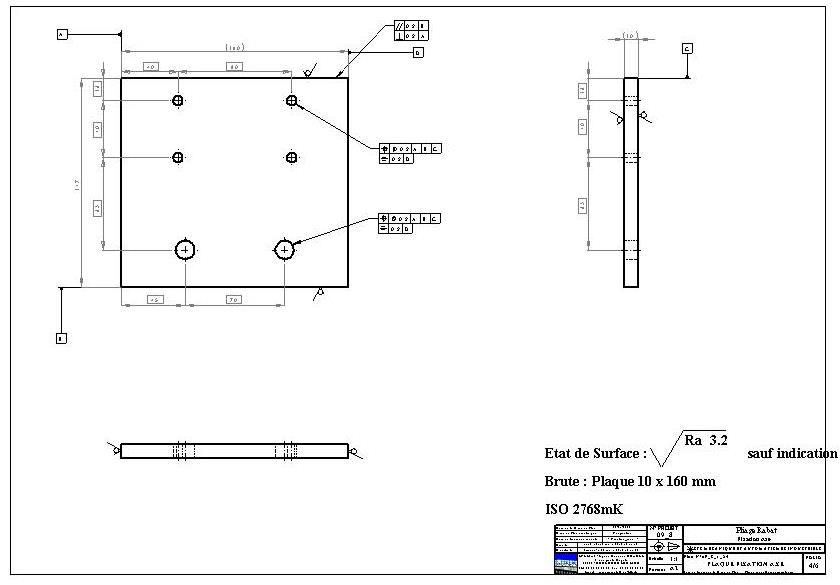 An Example of cotation